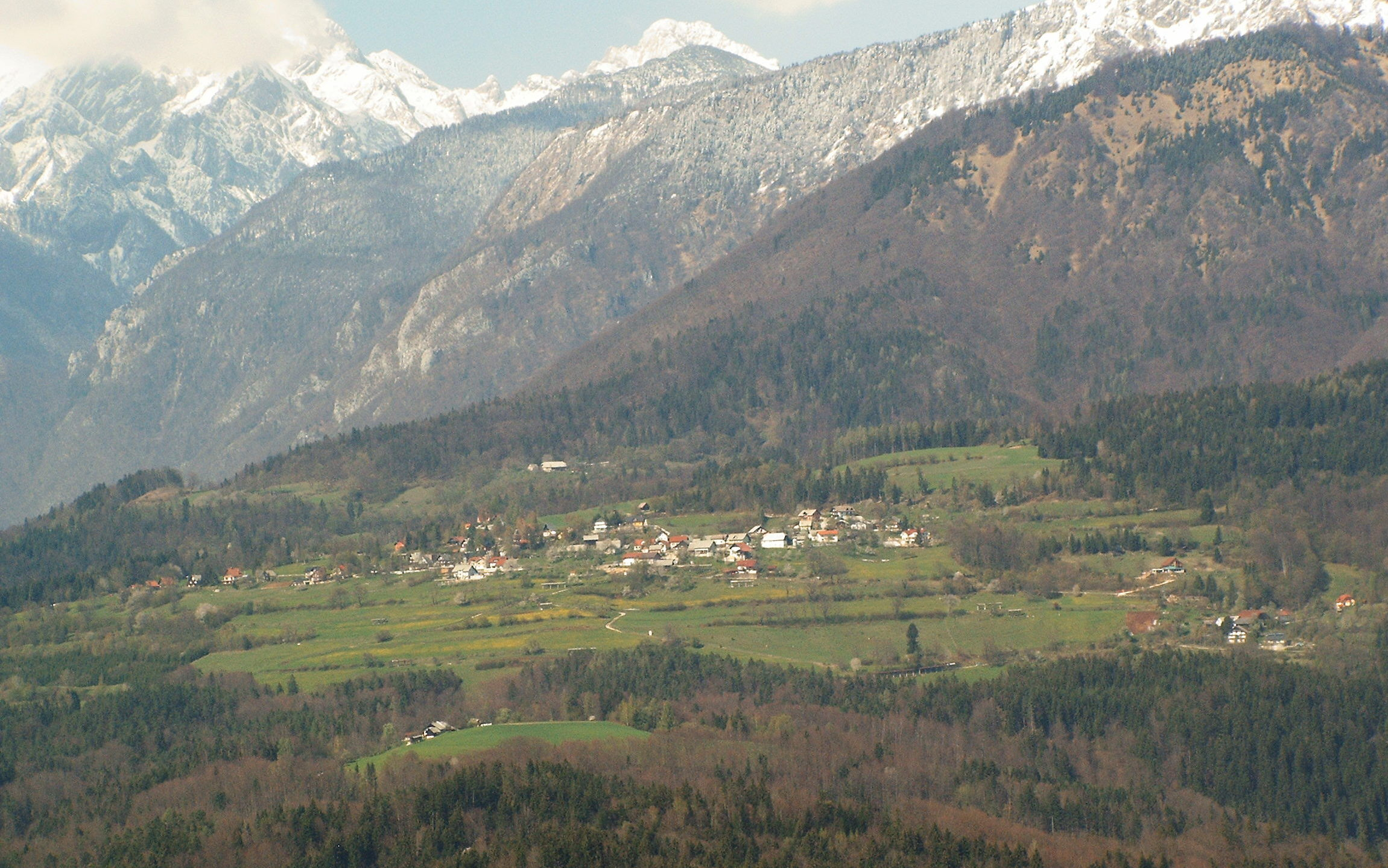 Brezje nad Kamnikom from Stari grad above Kamnik